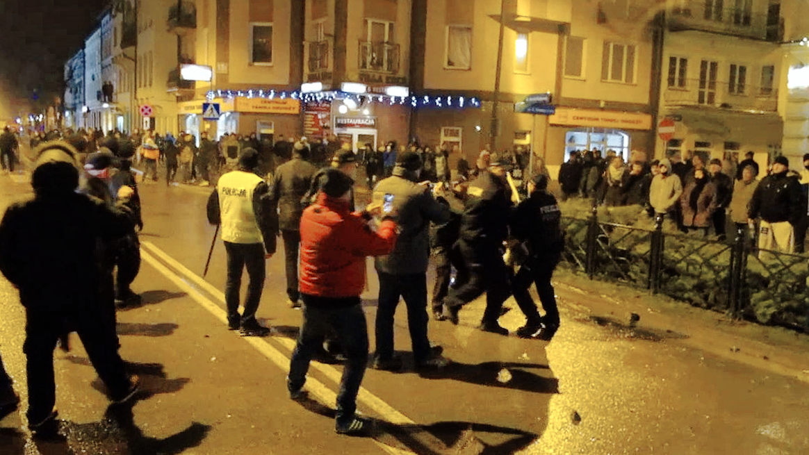 Ełk - brawl on New Year's Day at the centre of the town